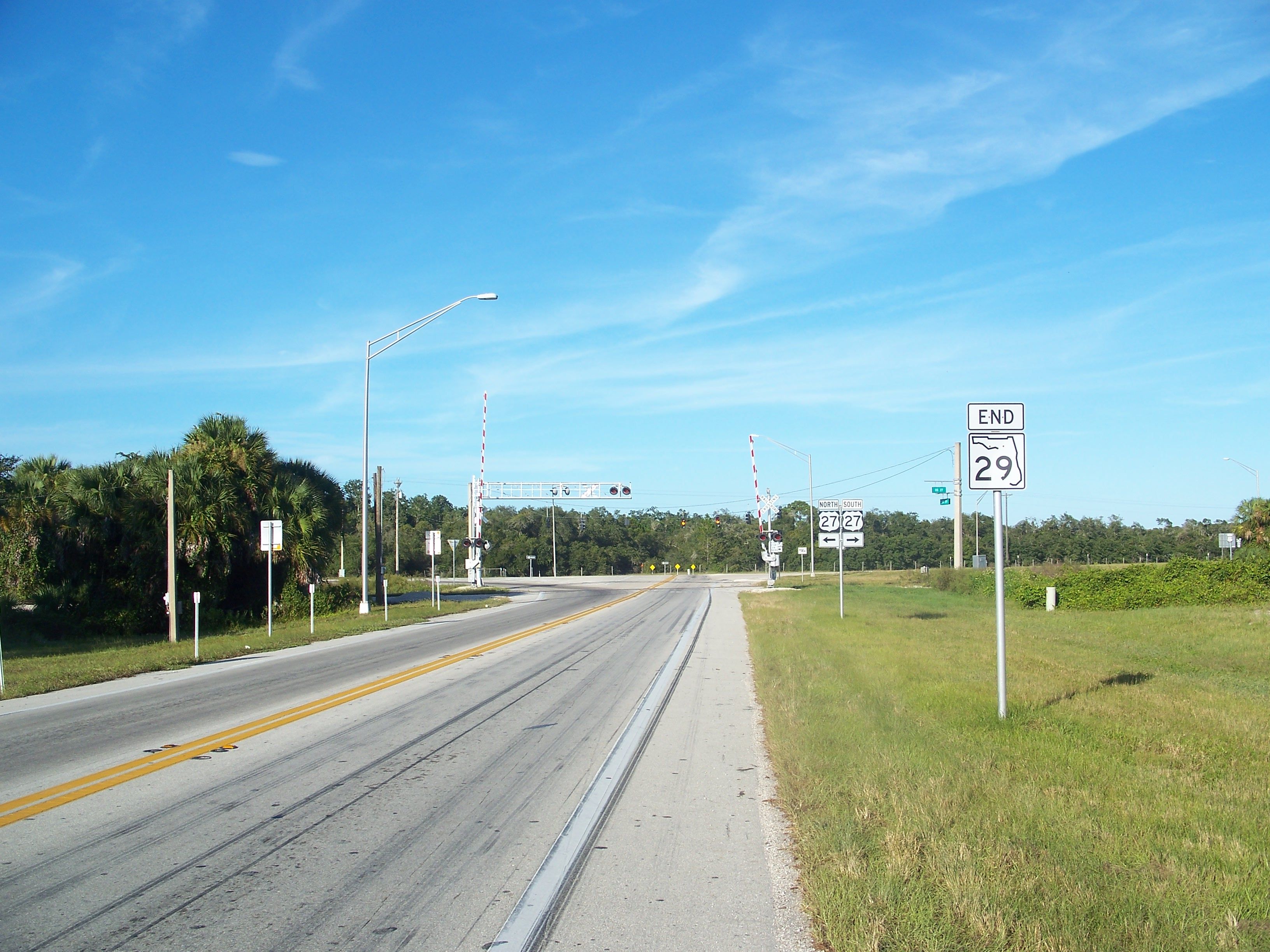 Palmdale, Florida: SR 29, looking north towards the U.S. Route 27 intersection.